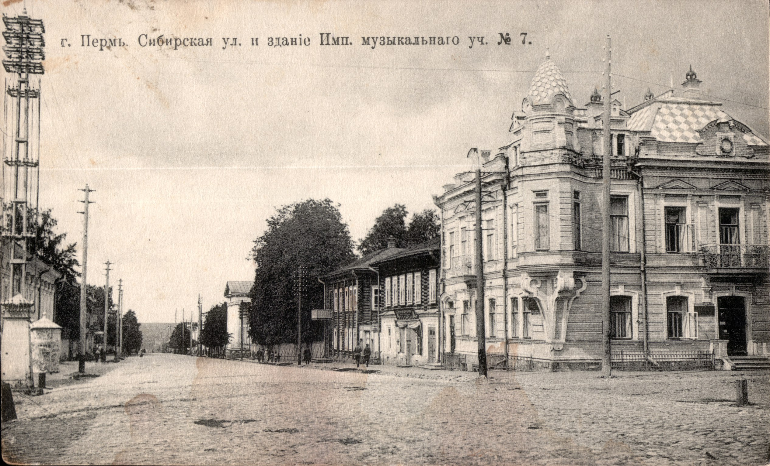 Carte Postale (Open Letter) published early XX century with view of Sibirskaya street of Perm city of Russia